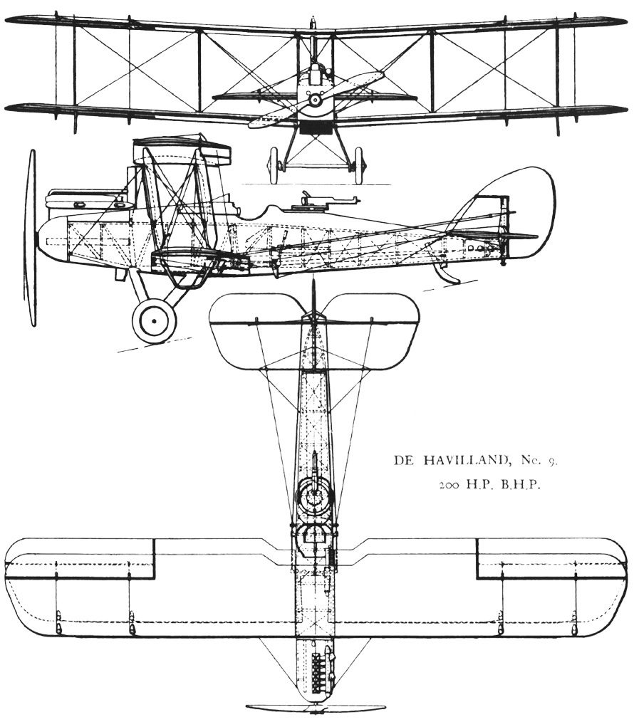 Airco DH.9 British First World War two seat bomber drawing